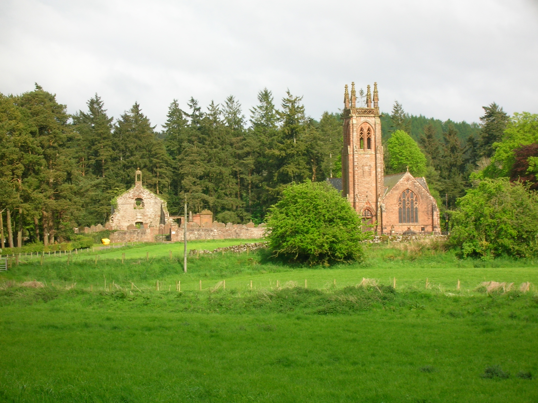 Closeburn old and new churches, Nith Valley, Dumfries & Galloway, Scotland.